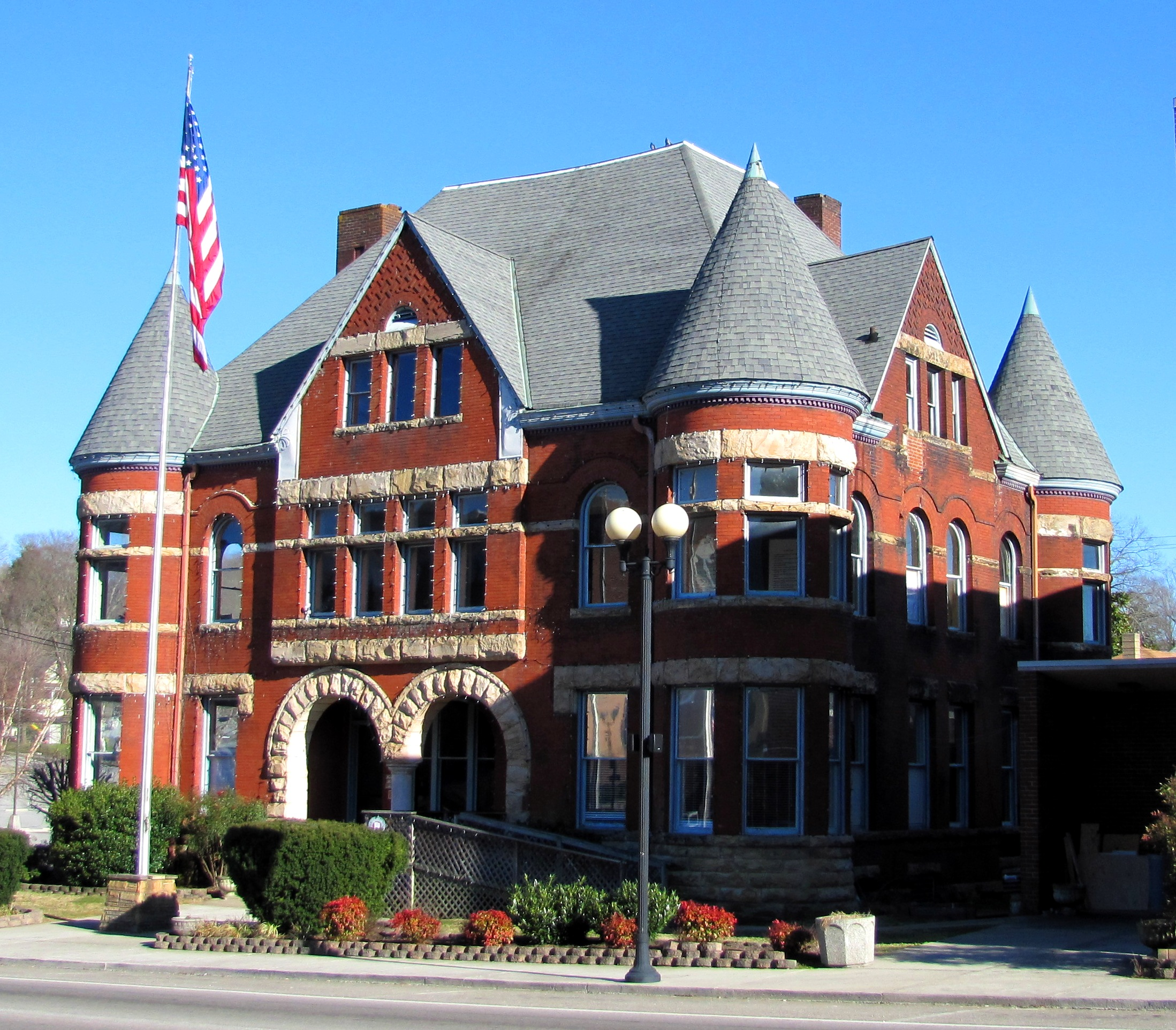 Harriman City Hall in Harriman, Tennessee, USA, built in the early 1890s to house American Temperance University.